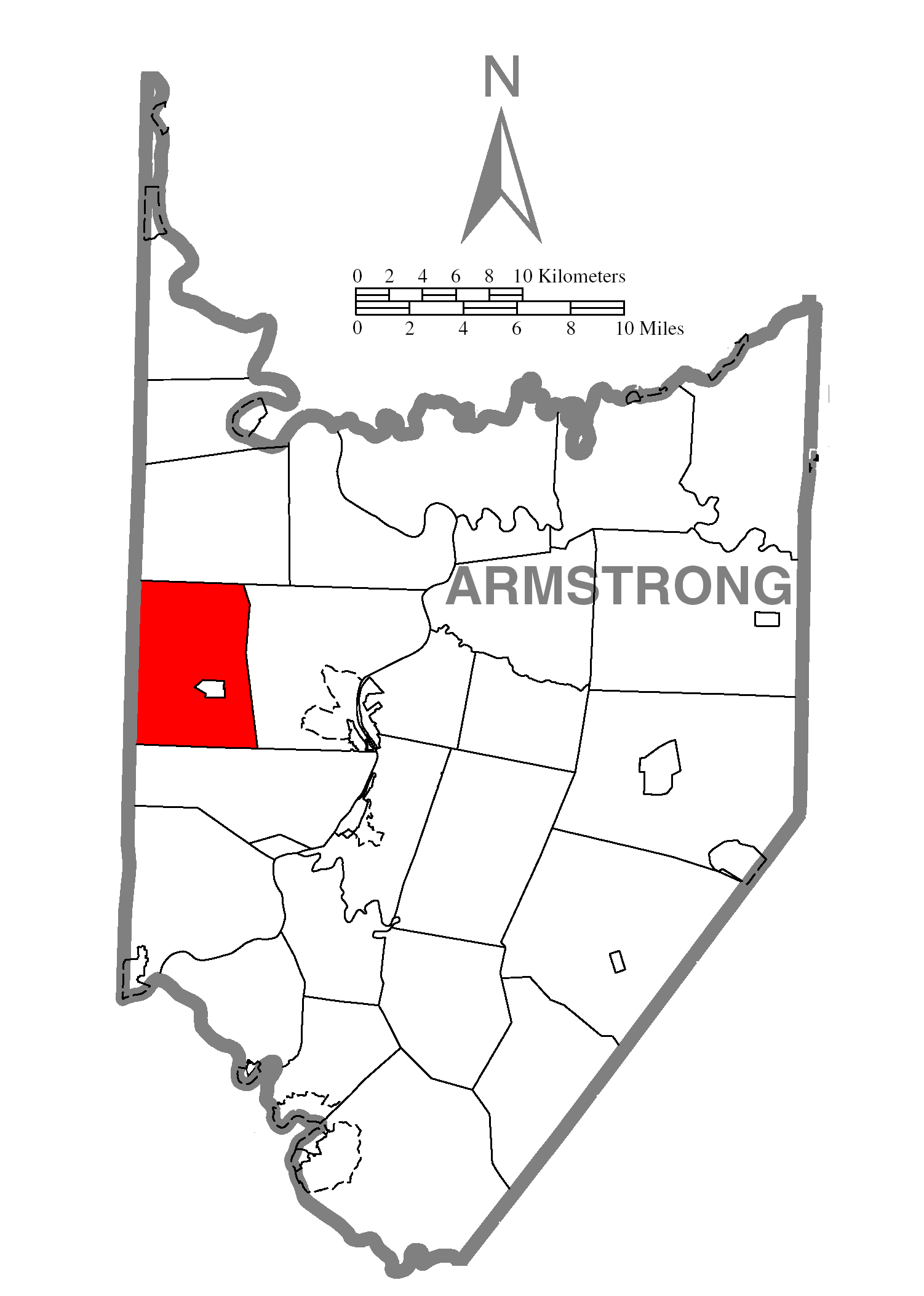 A map of Armstrong County showing West Franklin Township, Pennsylvania (alternate) highlighted on the map.